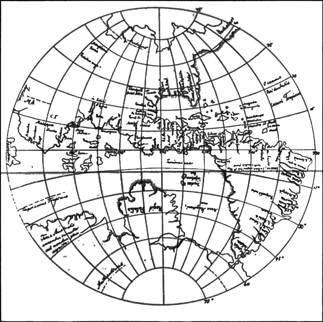 Western hemisphere of Johannes Schöner Weimer Globe (1533). Made in 1533. Who died more than 200 years ago.